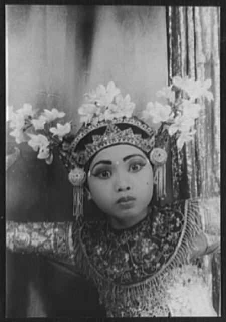 Title: Portrait of Balinese dancer Ni Gusti Raka, in the Legong Physical description: 1 photographic print : gelatin silver. Notes: Forms part of: Portrait photographs of celebrities, a LOT which in turn forms part of the Carl Van Vechten photograph collection (Library of Congress).; Title derived from information on verso of photographic print.; Van Vechten number: XVII JJ 6.; Gift; Carl Van Vechten Estate; 1966.; Also available on microfilm.